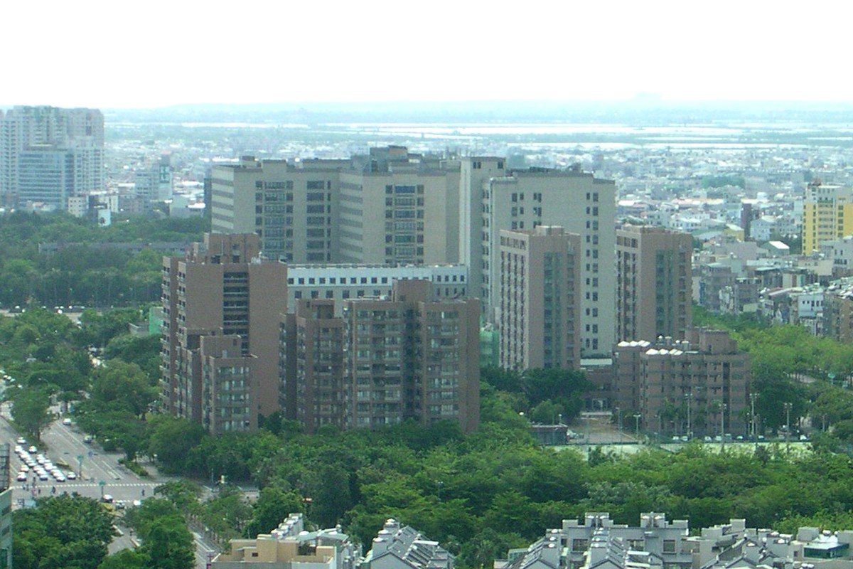 National Cheng Kung University Hospital